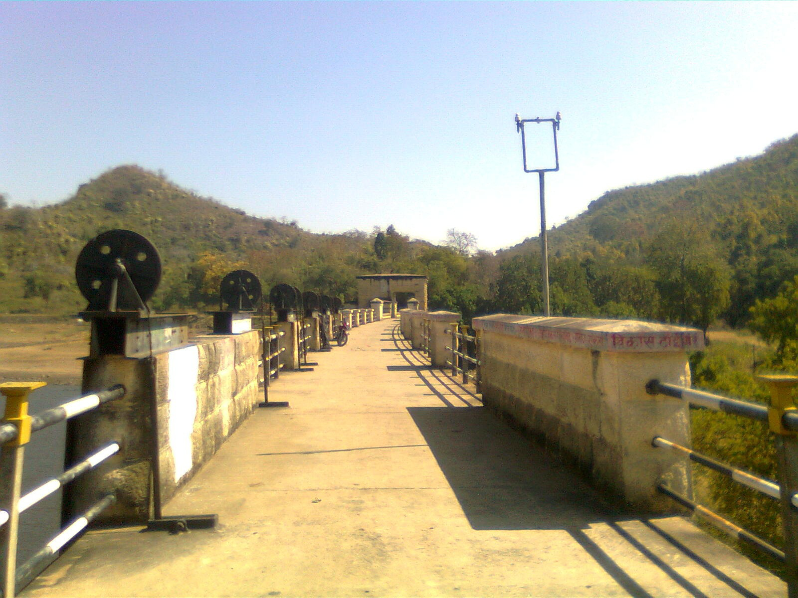 Topchanchi lake is very beautiful situated near scenery of Sikherjij mountin.